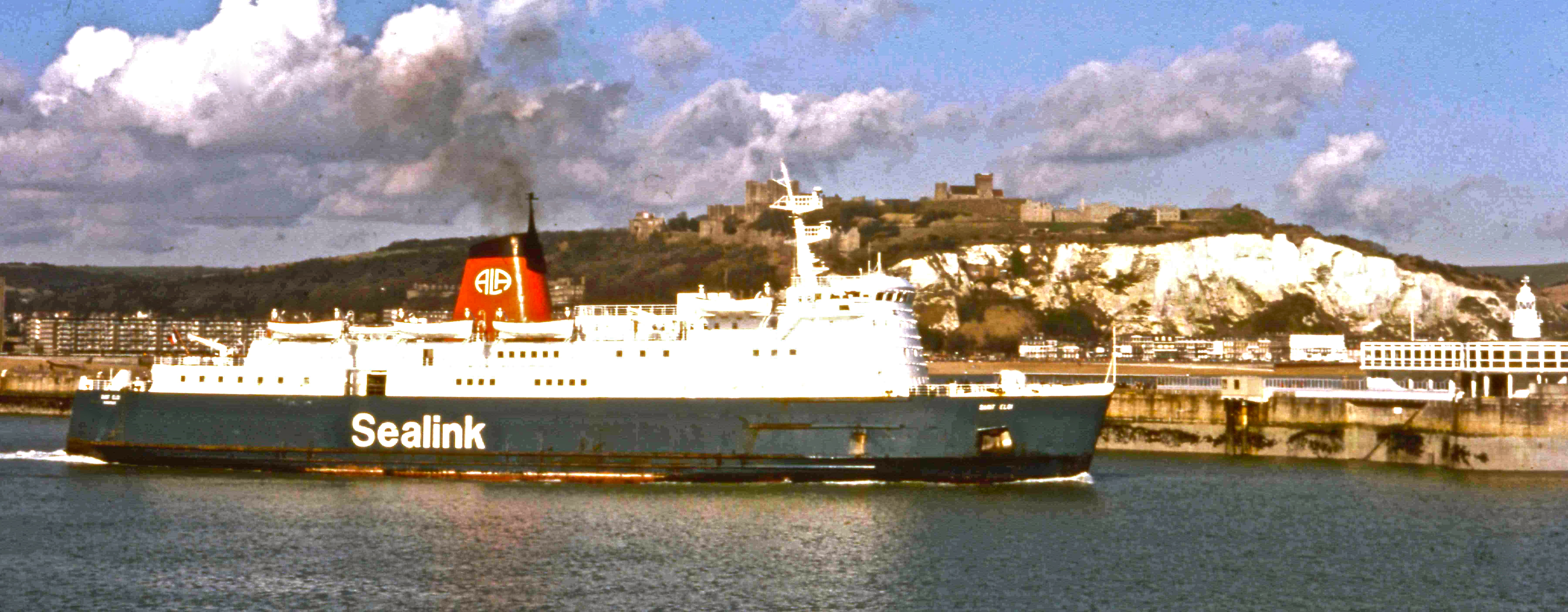 1980 in Angleterre-Lorraine-Alsace colours